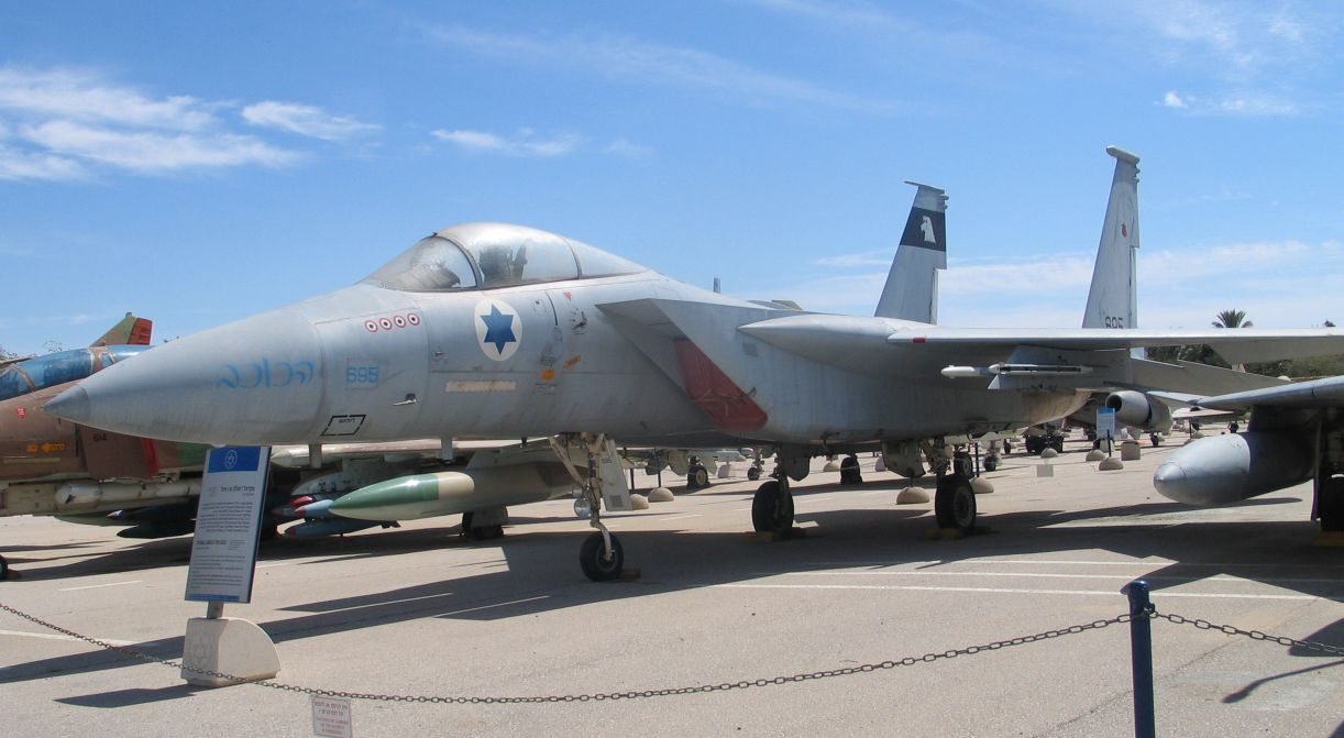 Description: F-15A (IDF designation Baz) at Muzeyon Heyl ha-Avir, Hatzerim, Israel. 2006. Source: Photo by me, User:Bukvoed.